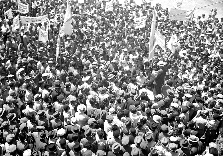 Ben Zvi addressing anti-White Paper demonstration, Jerusalem, 18 May 1939